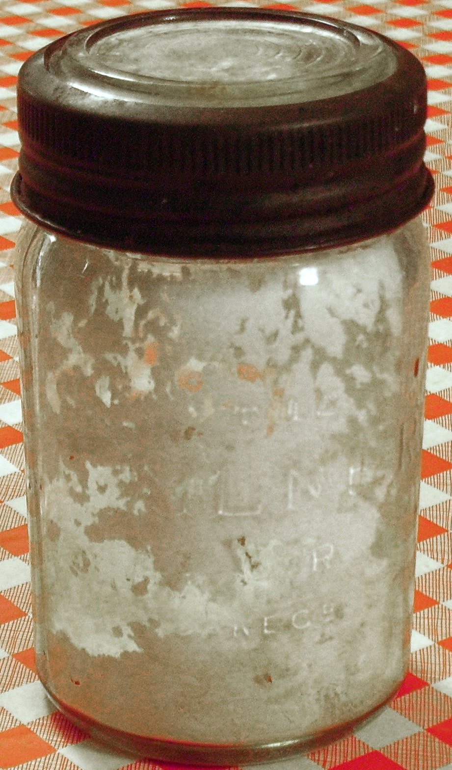 A Kilner jar from no later than 1928, containing cornflour